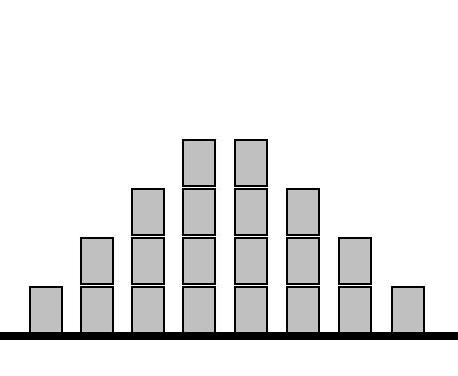 Picture of the Time pyramide at Wemding, Germany.